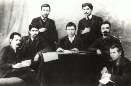 Stepan Shaumyan and Japaridze in 1908